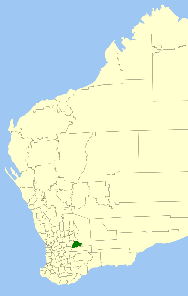 Description=Location of the Local Government Area in Western Australia